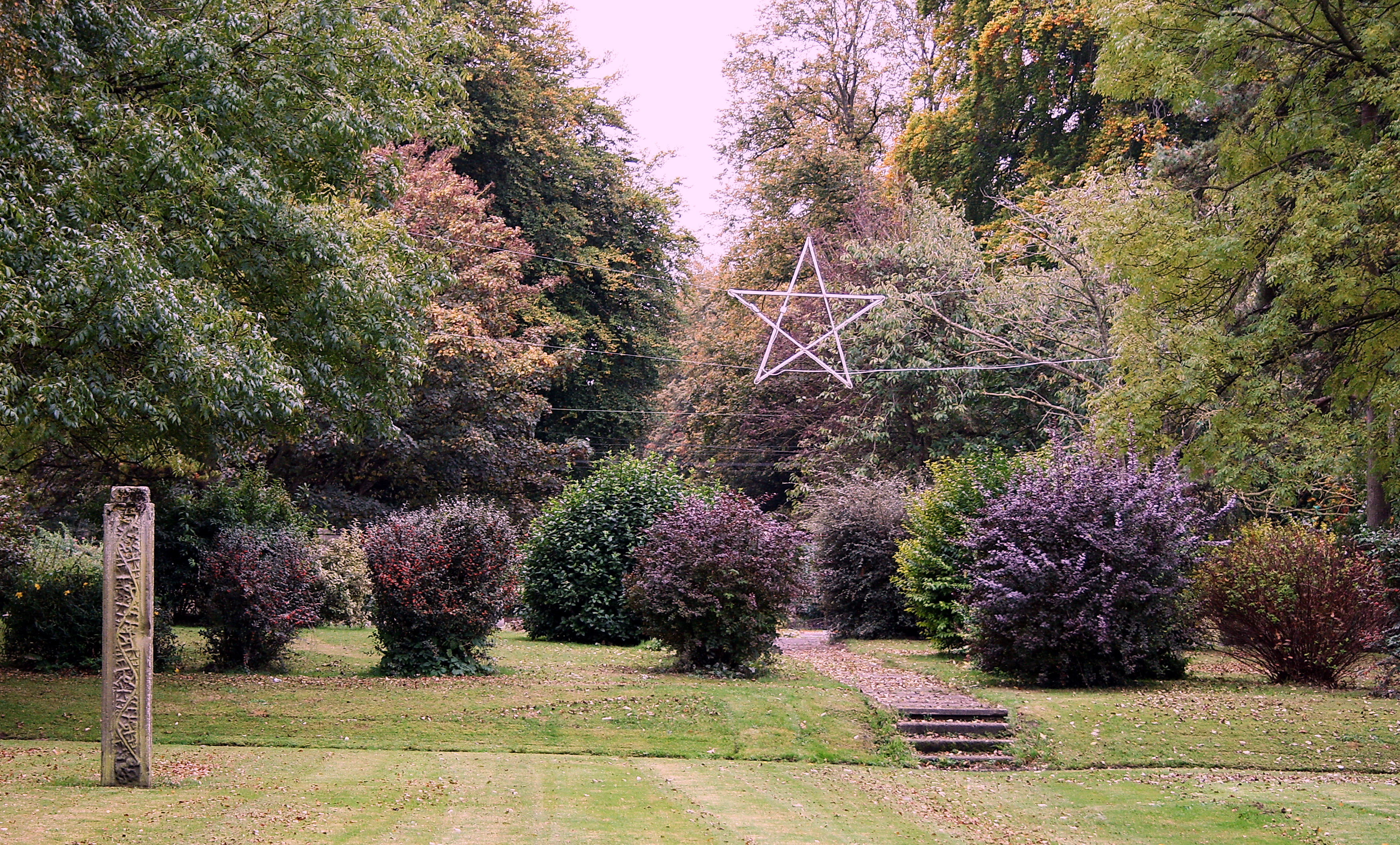 Park in village centre of Summerhill, County Meath, Ireland